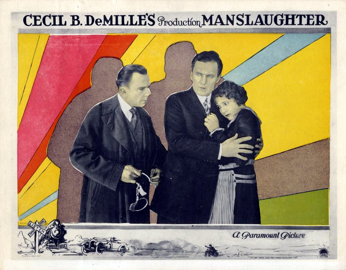 Lobby card for the American drama film Manslaughter (1922).